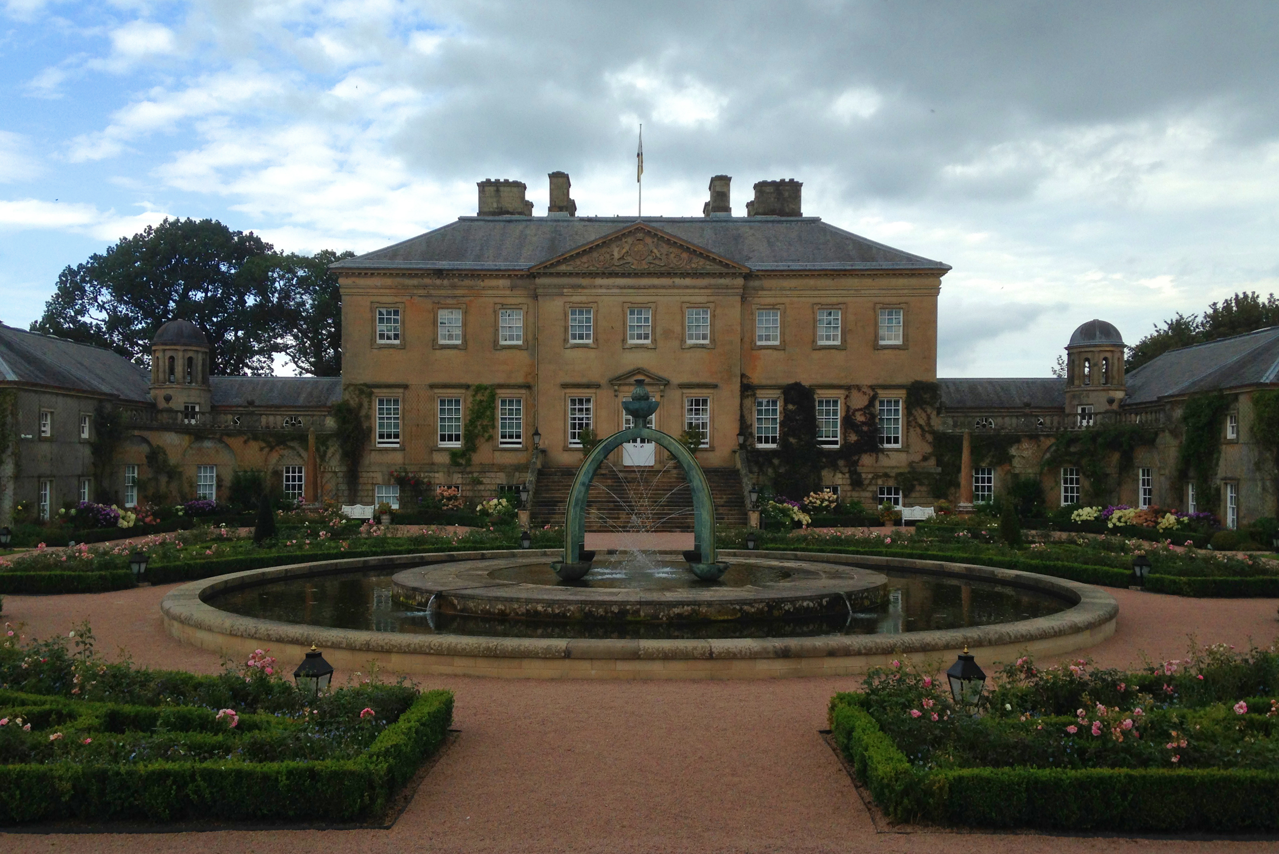 Dumfries House front